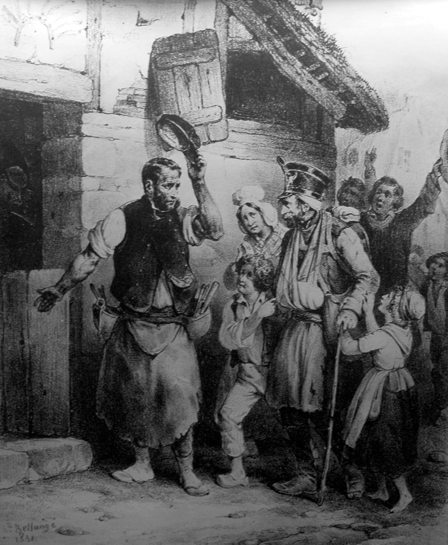 Made on a summer day in the Museum of the Polish Army in Warsaw A series of anonymous xylographs depicting the early stages of the November Uprising in Warsaw, as well as the aftermath of the fights - the Great Emigration A Polish refugee